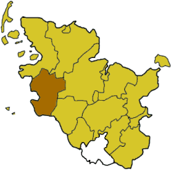 Map of Schleswig-Holstein highlighting the district Dithmarschen